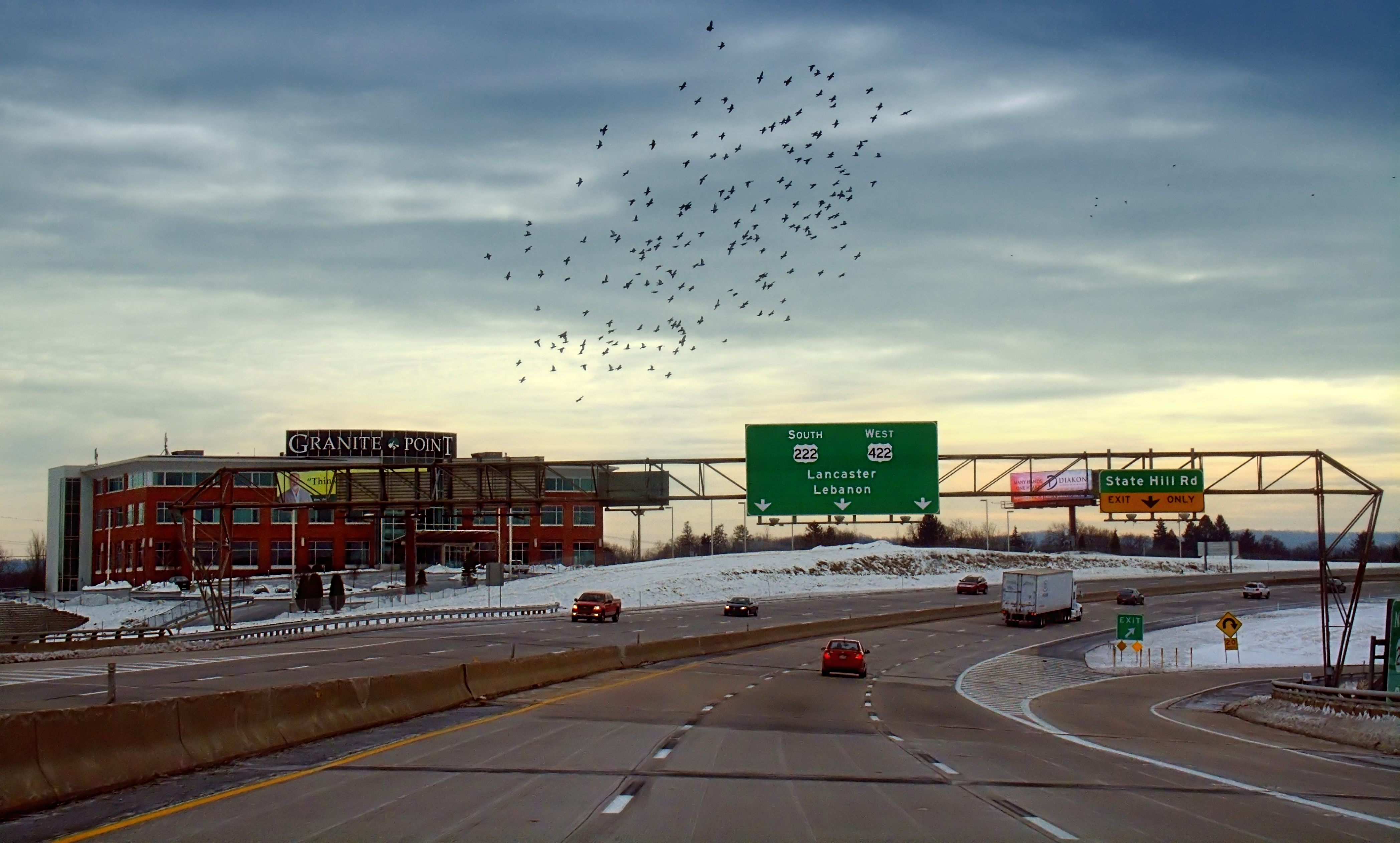 US Route 222, Berks County.